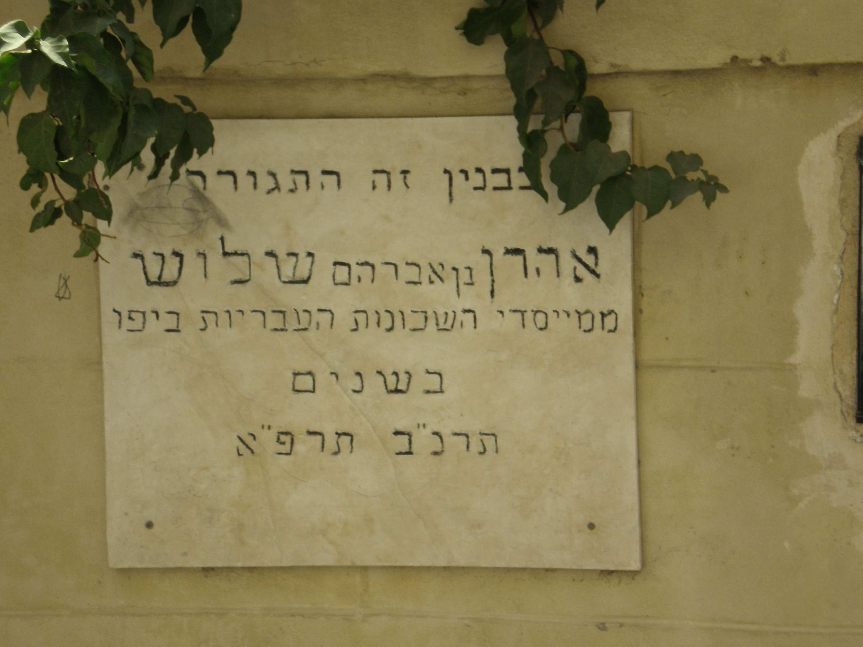 Plaque next to residence of Aharon Chelouche, Neve Tzedek, Tel Aviv, Israel.